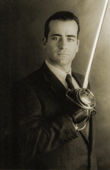 personal photo; Miguel Gomes (maybe...)